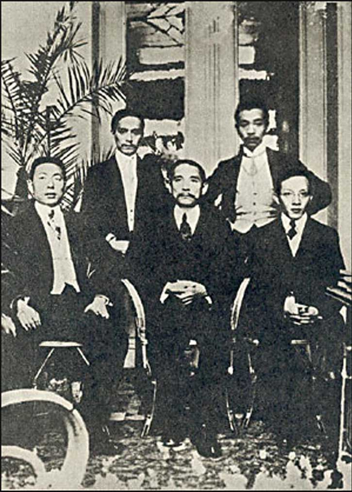 Sun Yat-sen with Chinese students in Belgium, circa 1905.